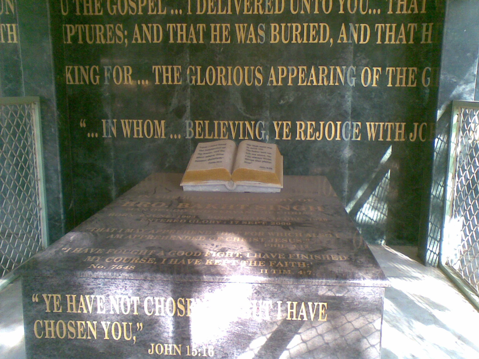 Grave of Brother Bakht singh